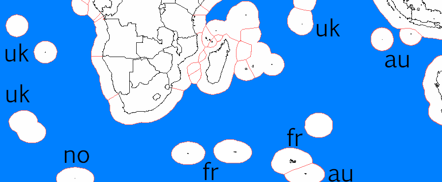 Crop of File:Internationalwaters.png to lat-long lines plus country code captions Lat-long box is the part of the Southern Hemisphere where international waters are not part of a Nuclear Weapons Free Zone (excluding a corner between Australia and Indonesia)